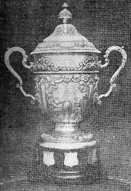 Trophy of Copa Mariano Reyna, played between combined teams of Liga Rosarina and Buenos Aires (AFA), photographed in 1918.